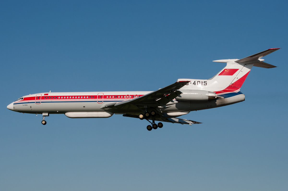 PLAAF Tupolev Tu-154 spyplane on finals at Beijing Capital